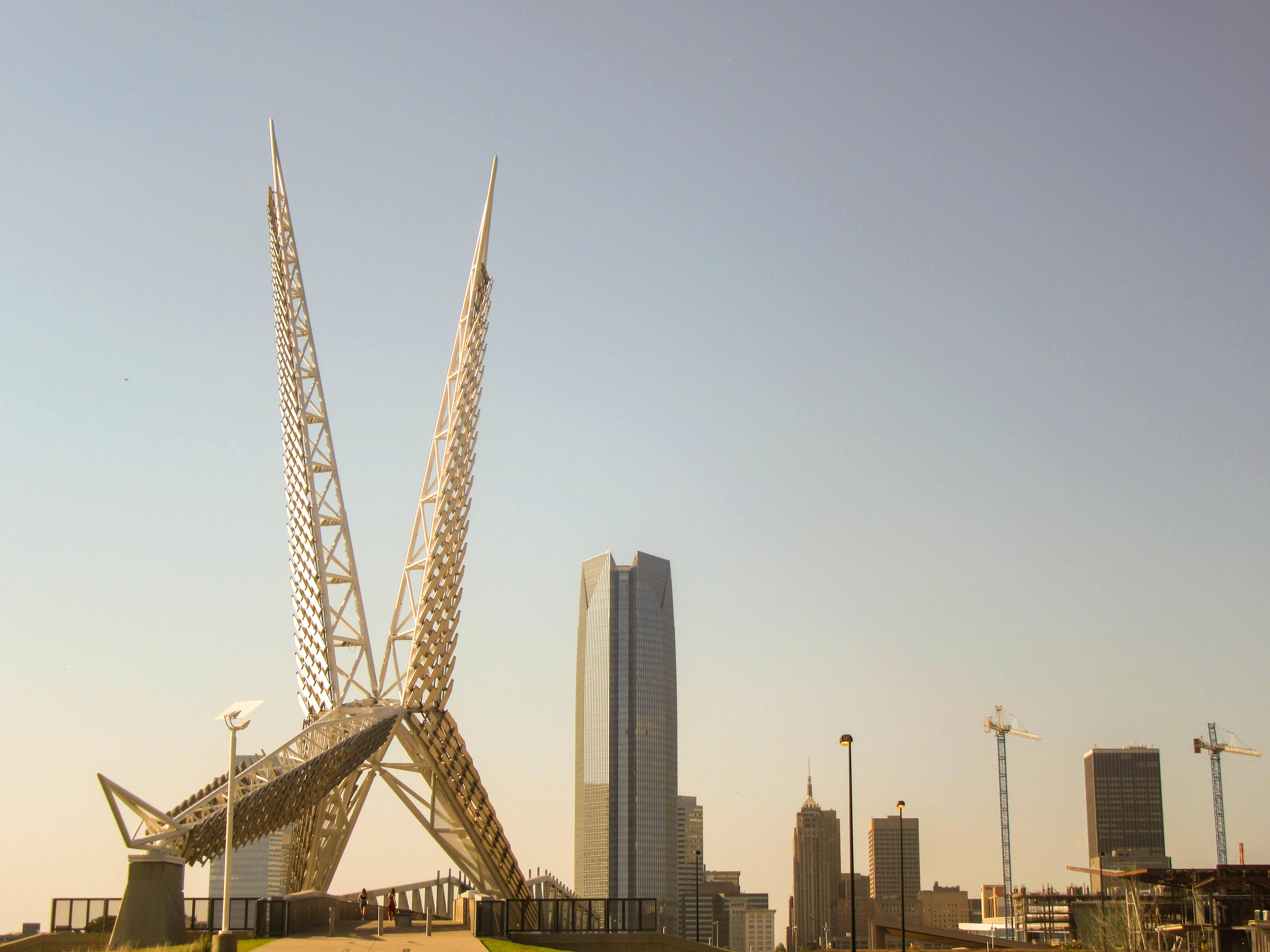 A photograph of the Skydance Bridge in Oklahoma in June 2019